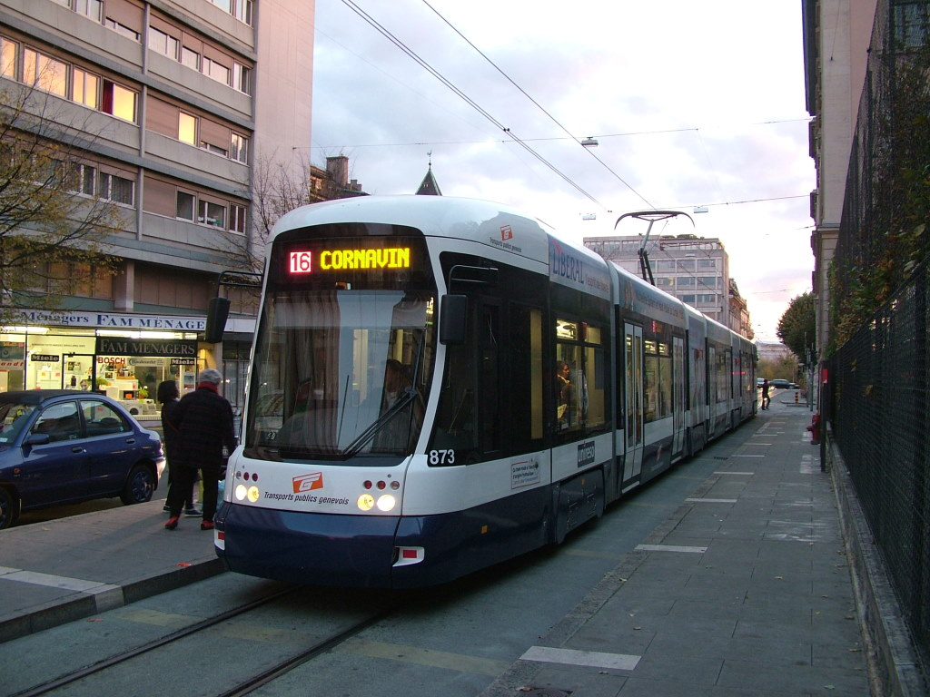 Tramcar no. 873 (type "Cityrunner", built by Bombardier in 2004) of TPG (Transports Public Genevois) on line 16 to Cornavin (Geneva main railway station) at Goulart stop, 05-11-05.